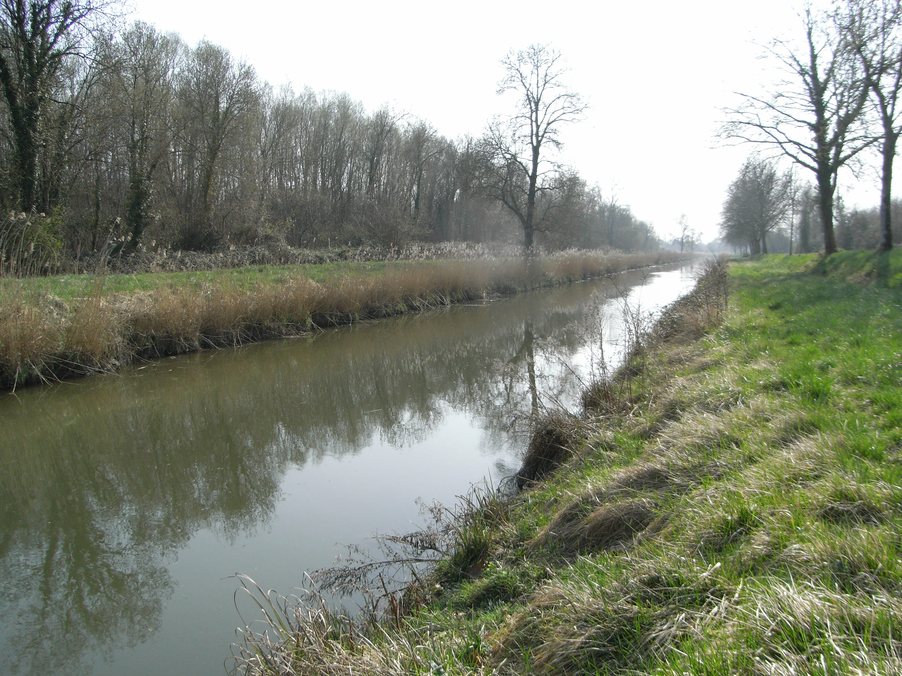 French canal at Charente to Seudre